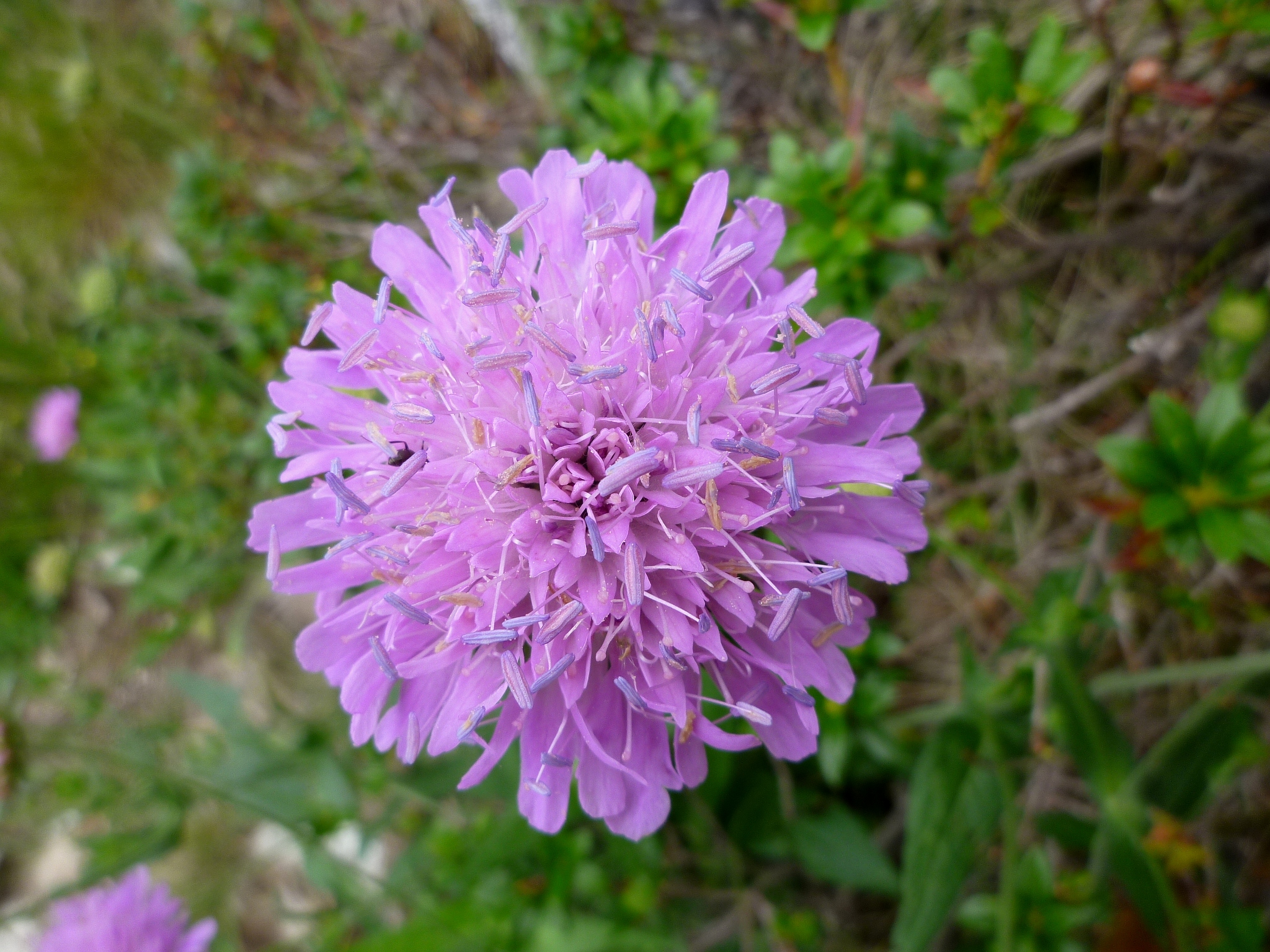 Succisa pratensis. In Cabdella (Pallars Jussà - Catalunya. To 2.110 m altitude